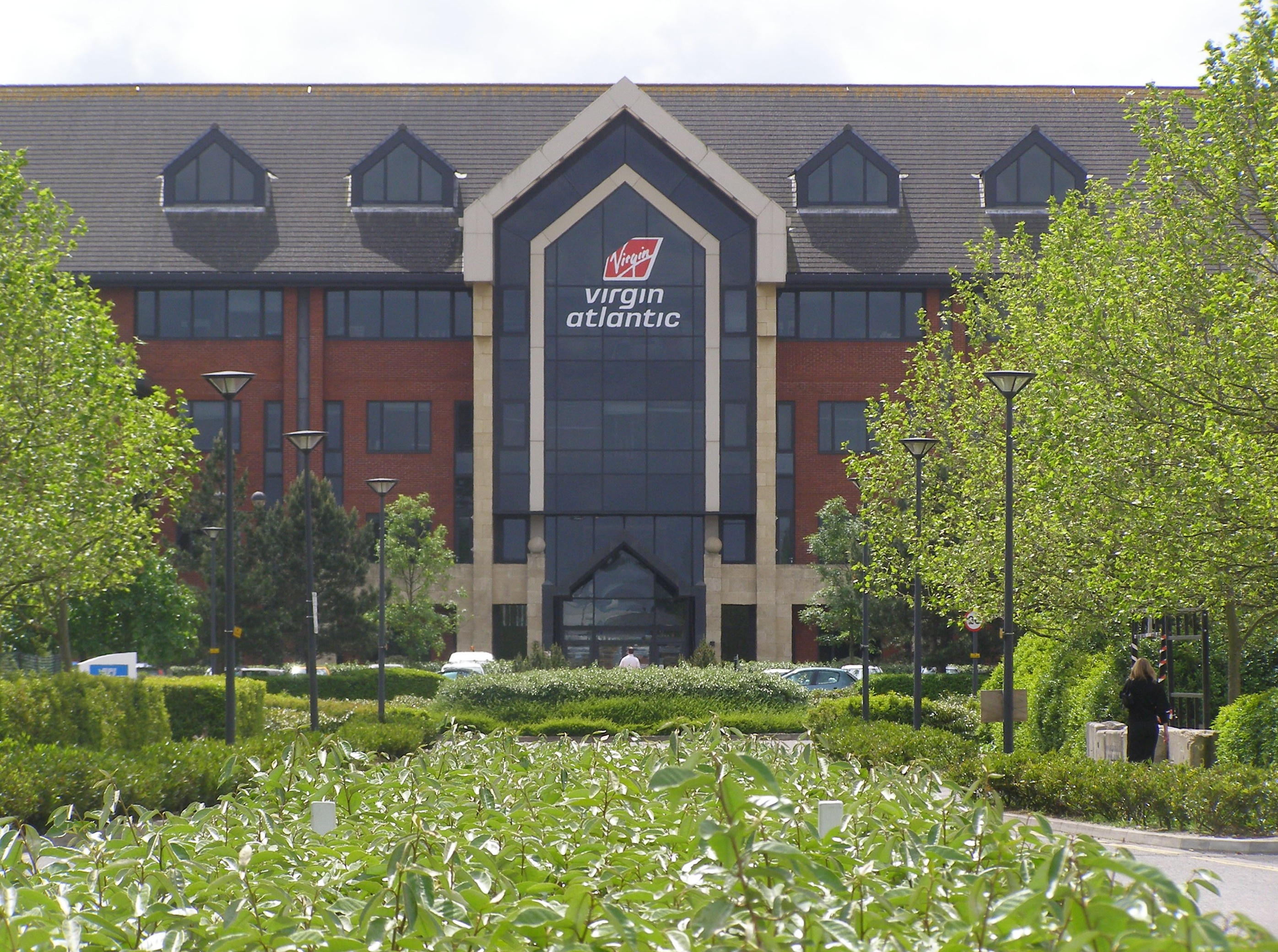 "The Office" at Manor Royal, Crawley, West Sussex, England - Head office of Virgin Atlantic and Virgin Holidays